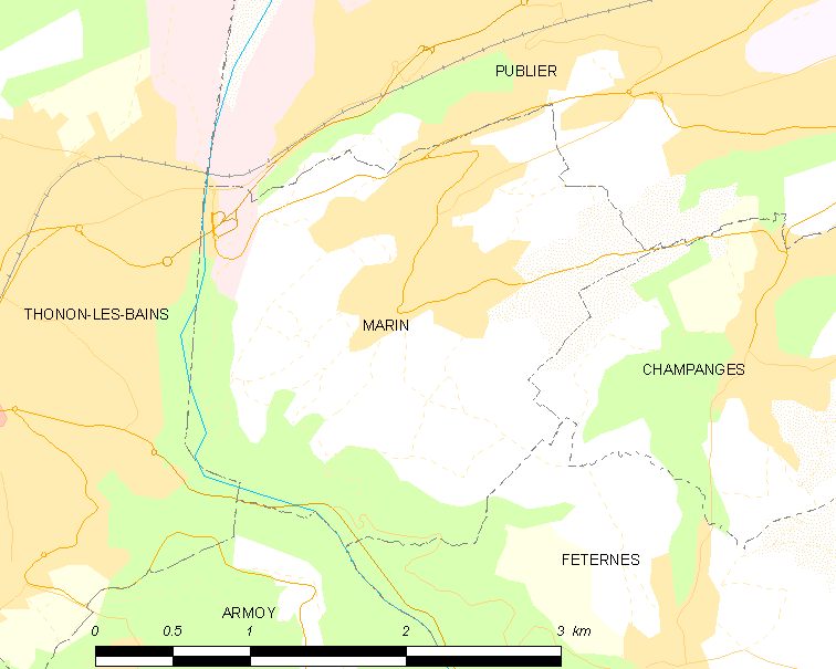 Map of French municipality Marin